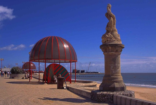 Lowestoft Promenade. The refurbished promenade at Lowestoft, Suffolk - the sunrise coast.